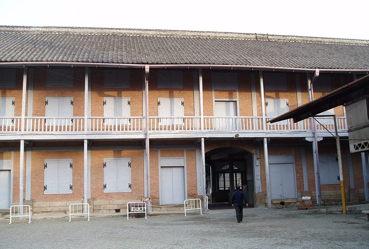 The East Cocoon Warehouse at Tomioka Silk Mill, built in 1872.